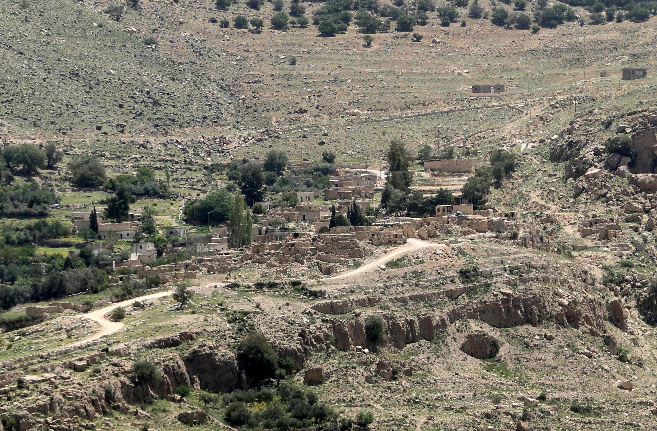 Village of Dana, Jordan